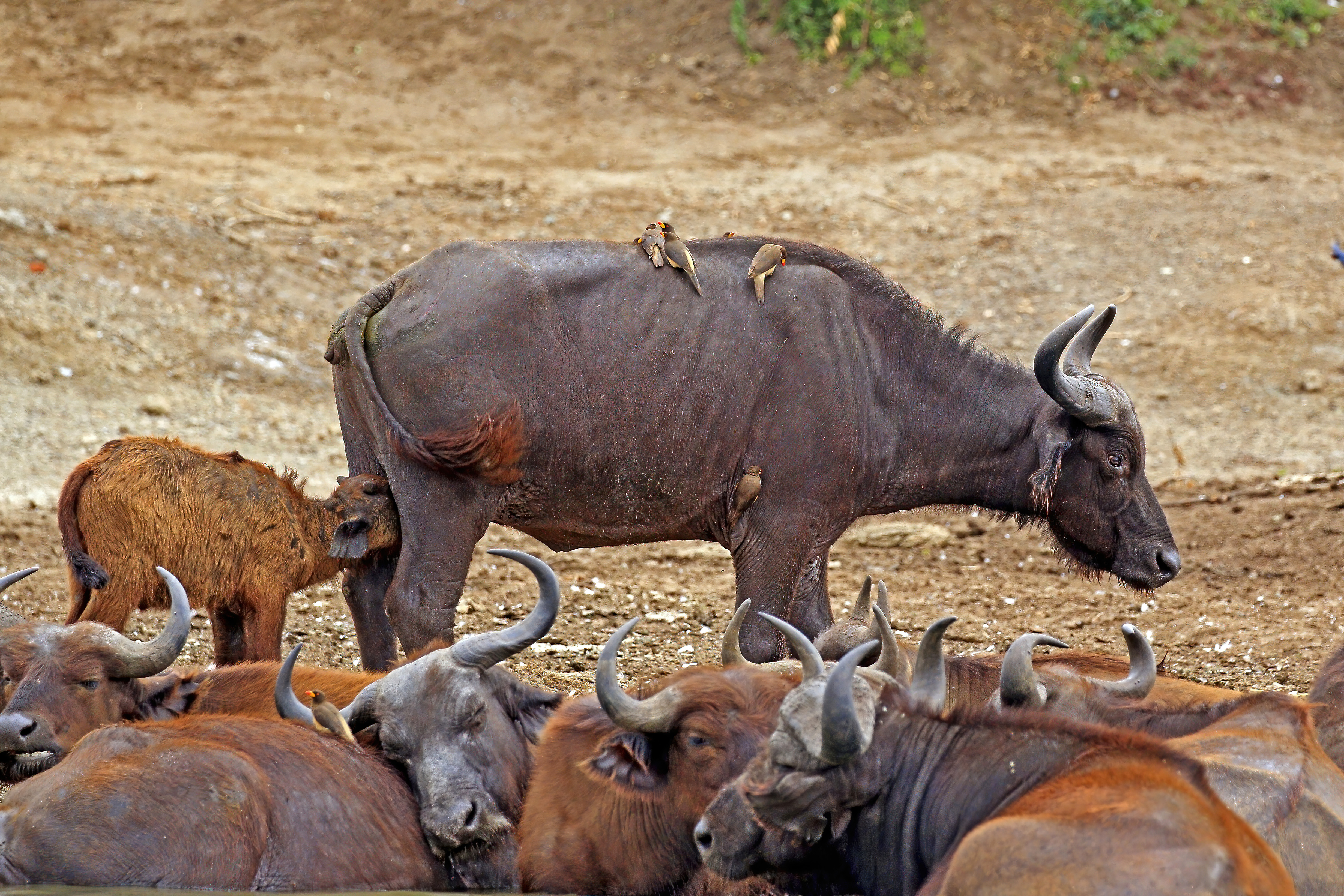 African buffalo (Syncerus caffer) calf, two weeks old, suckling, Kazinga Channel, Uganda